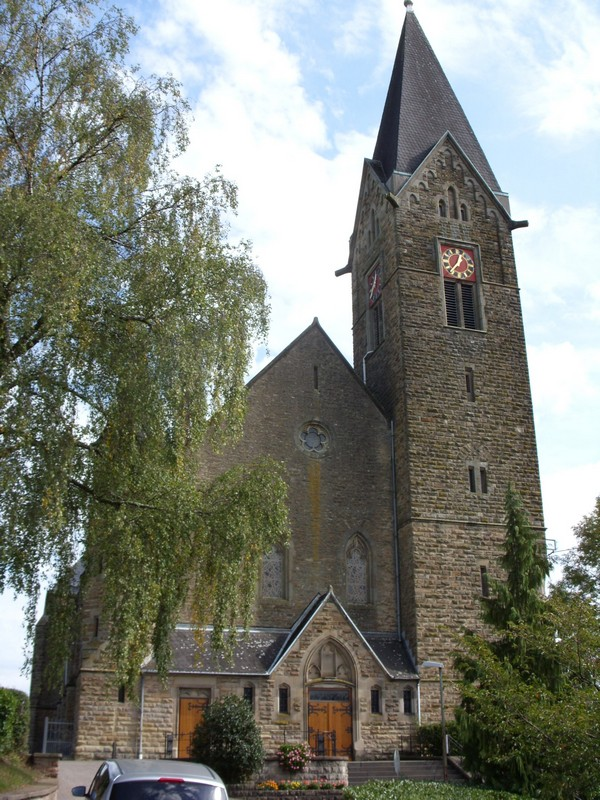 church sotzweiler